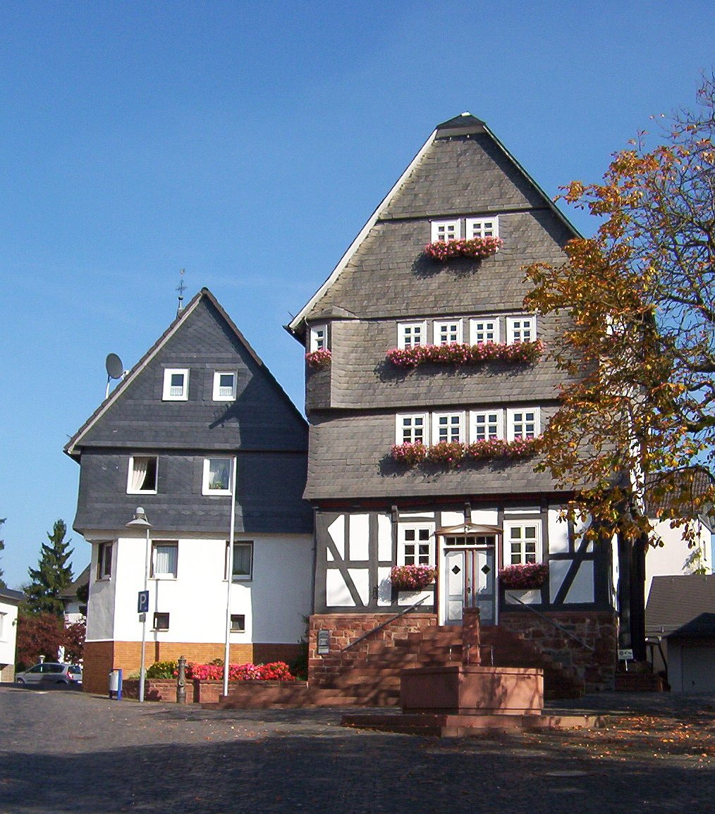 Germany / Hesse: Battenberg (Eder): old town hall